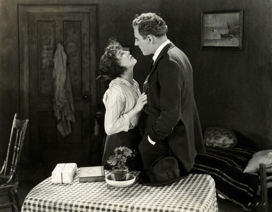 Louise Glaum and James Kirkwood, Sr. in Love (1920) - cropped screenshot